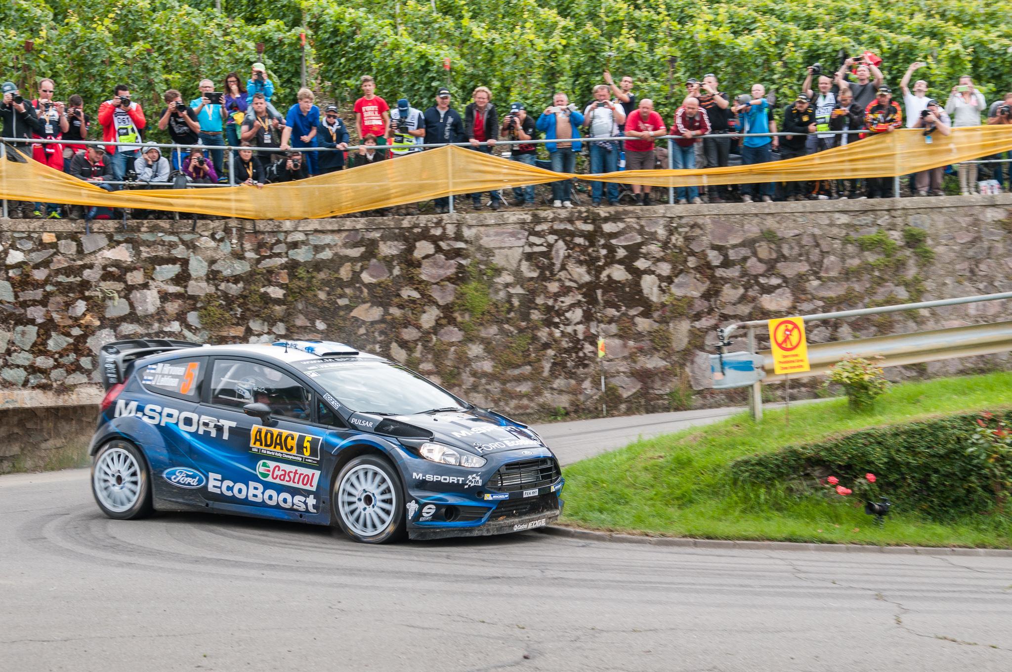 ADAC Rallye Deutschland 2014,FIA,FIA World Rally Championship,Ford Fiesta RS WRC,Jarmo Lehtinen,M-Sport WRT,M-Sport World Rally Team,Mikko Hirvonen,Moselland 1,Motorsport,Rally,Rallye,SS 3,WP 3,WRC